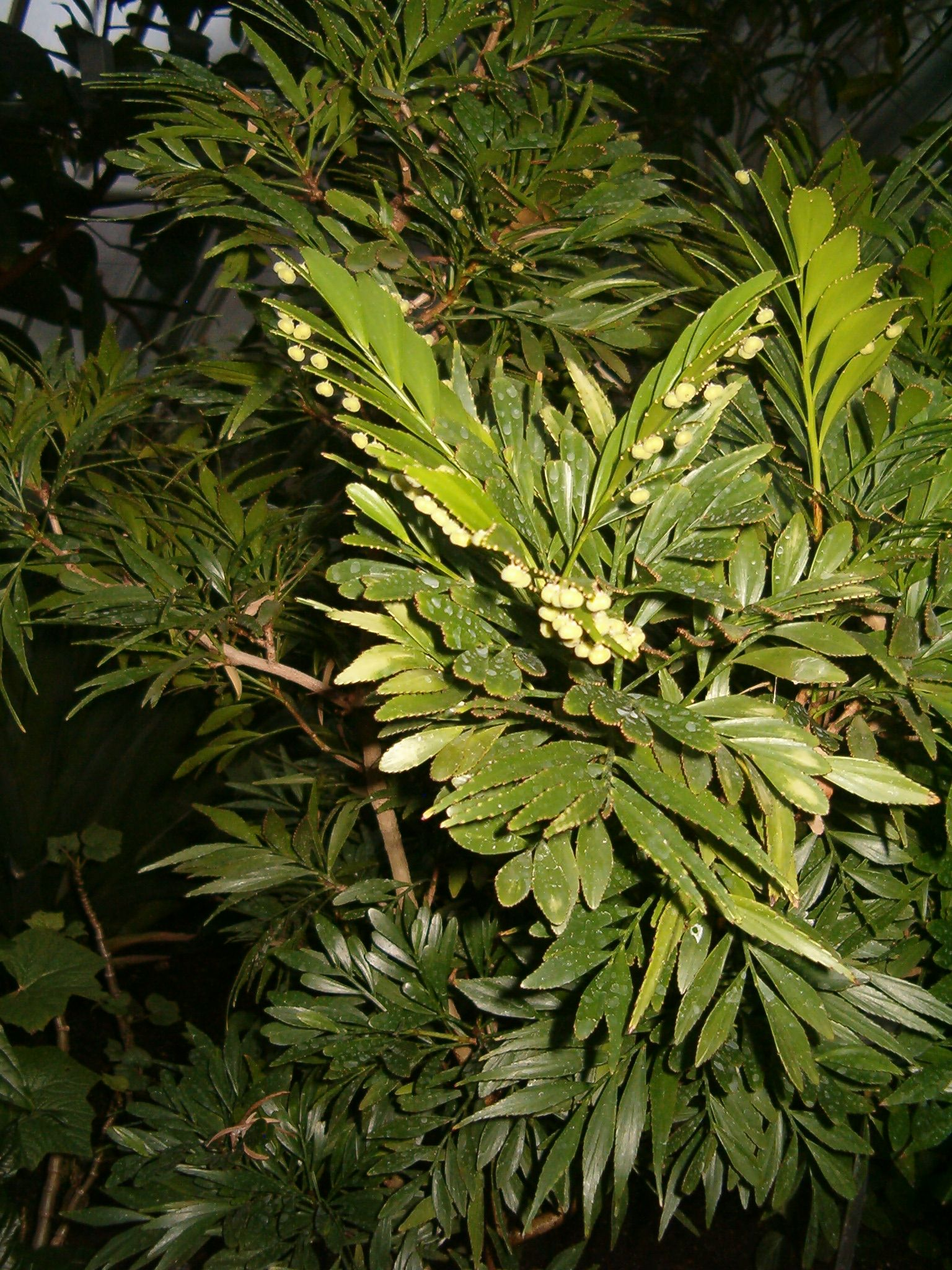 Location: Botanical Gardens Berlin Dahlem